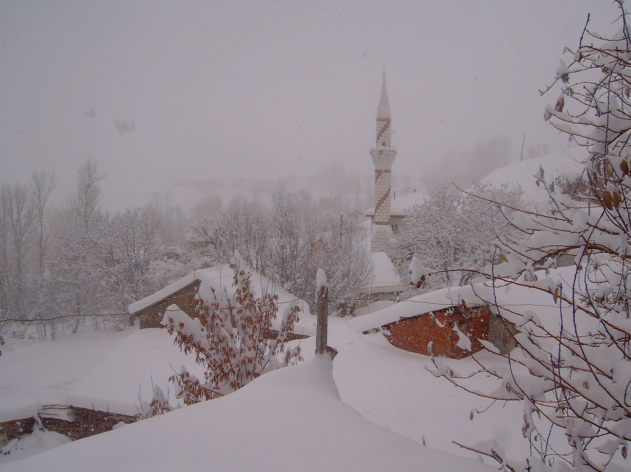 Winter in village of Çokrak, Suşehri, Sivas Province, Turkey.